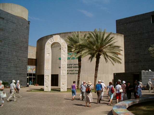 Yigal Allon Center, Kibbutz Ginosar